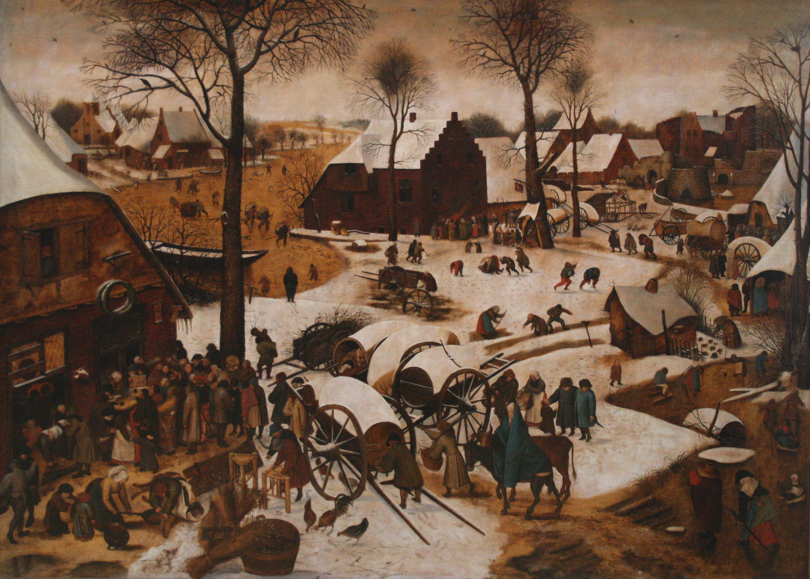 Census in Bethlehem